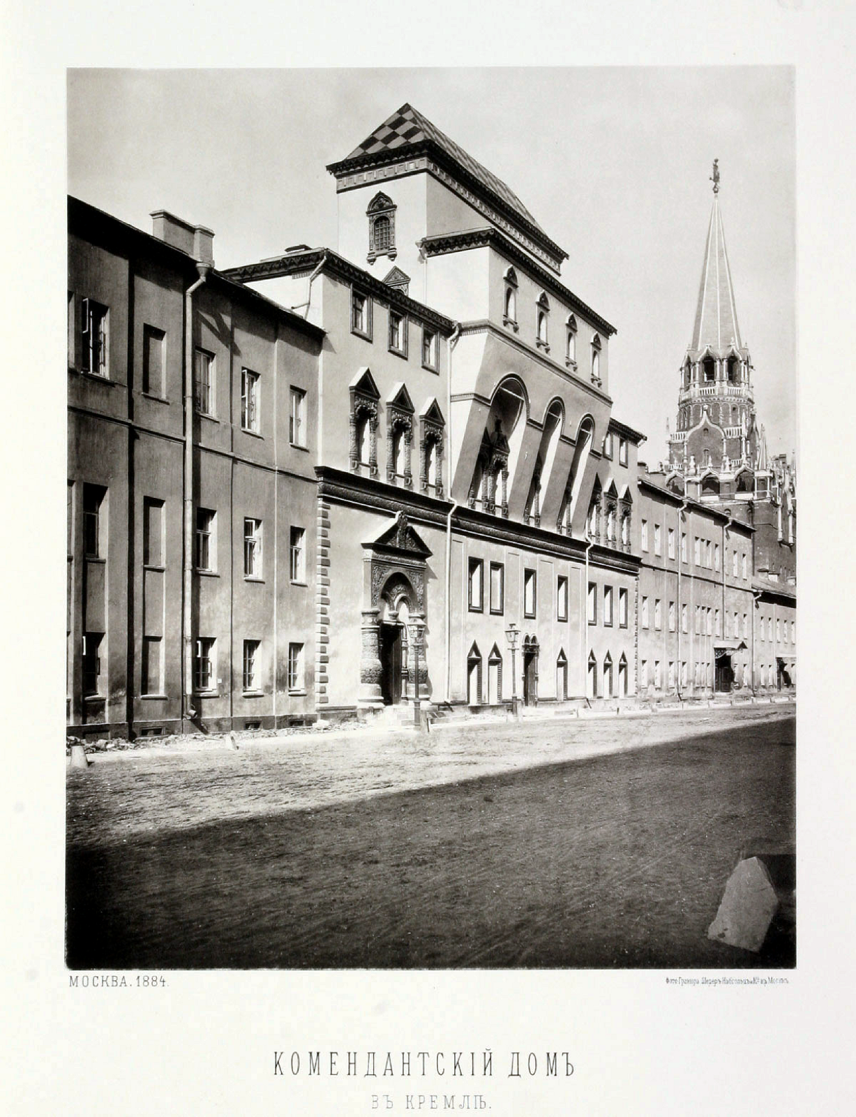 Plate 33: The Kremlin military commander's residence (present-day Amusement Palace).